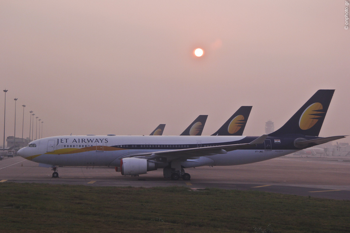 4 Airbus A330 resting in Delhi Airport